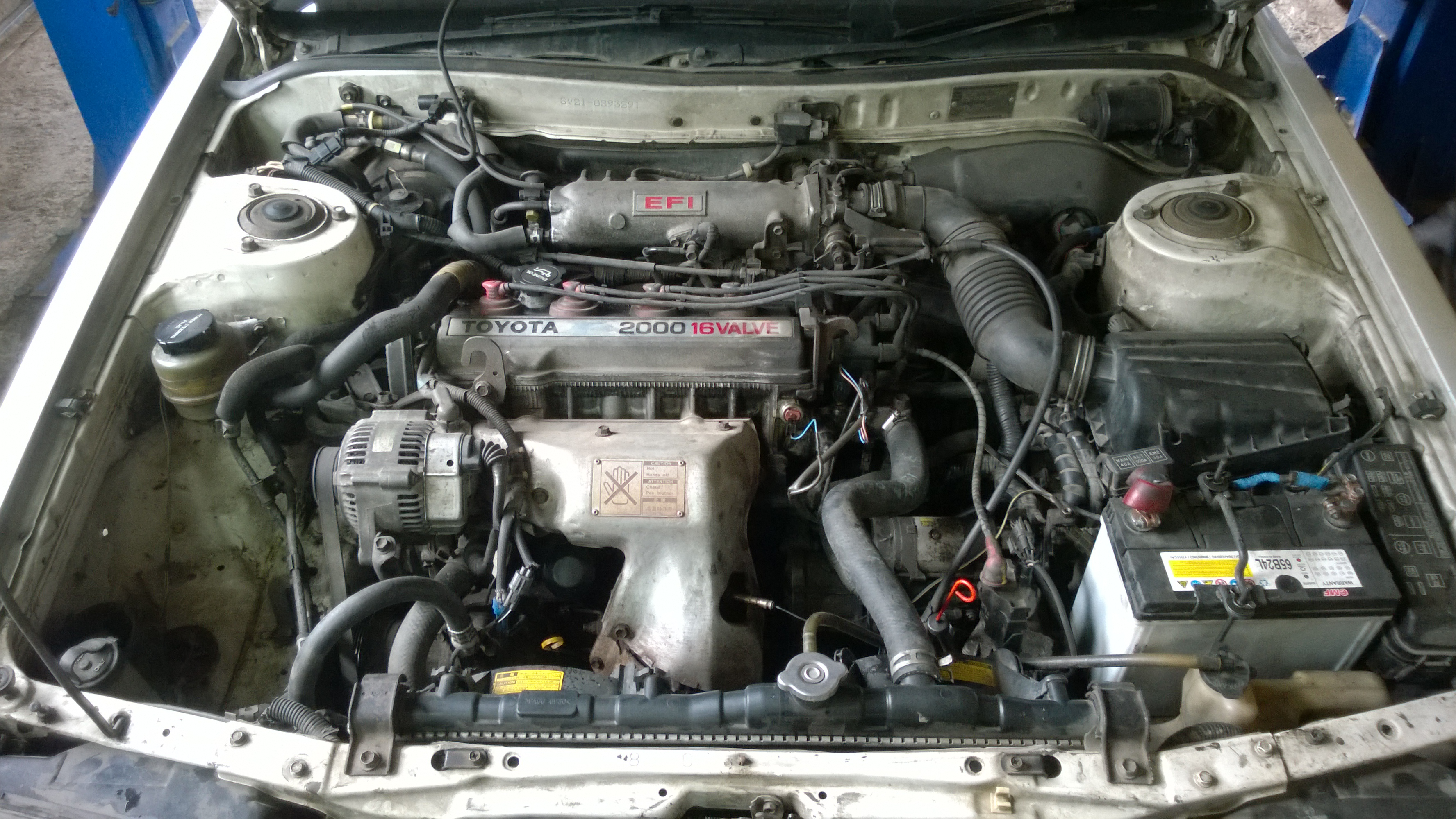 3S-FE & A140E